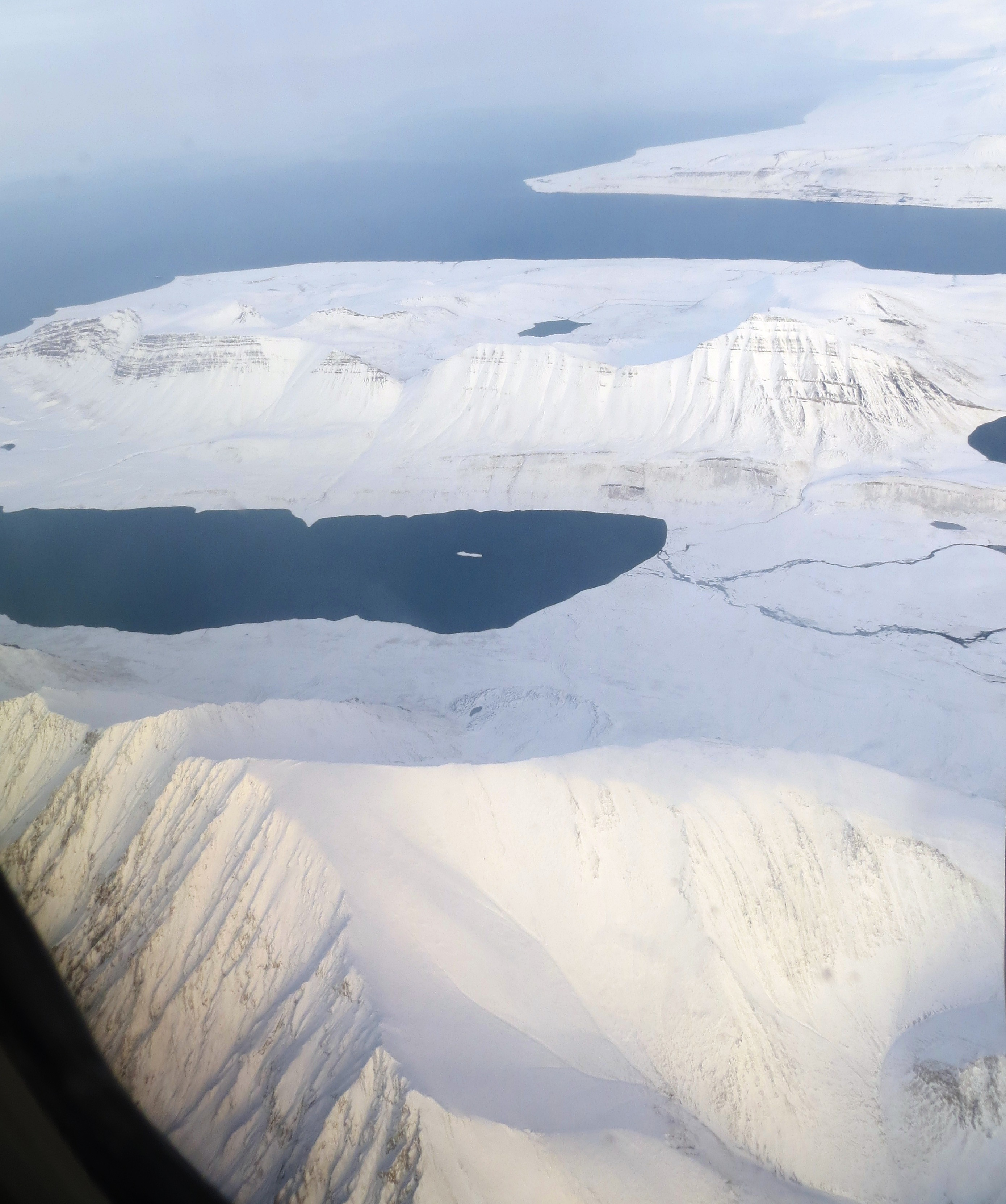 Aerial view of the western part of Nordenskiöld Land, the areas between Bellsund, Grönfjorden and Isfjorden. Western Spitsbergen, Svalbard.